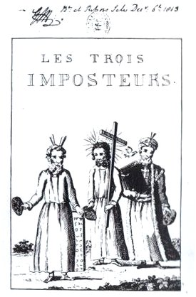 Title page of a frontispiece to a French edition of Les trois imposteurs, Fierence, Bibliotheca Nazionale Fondo Guicciardini 9.3.19